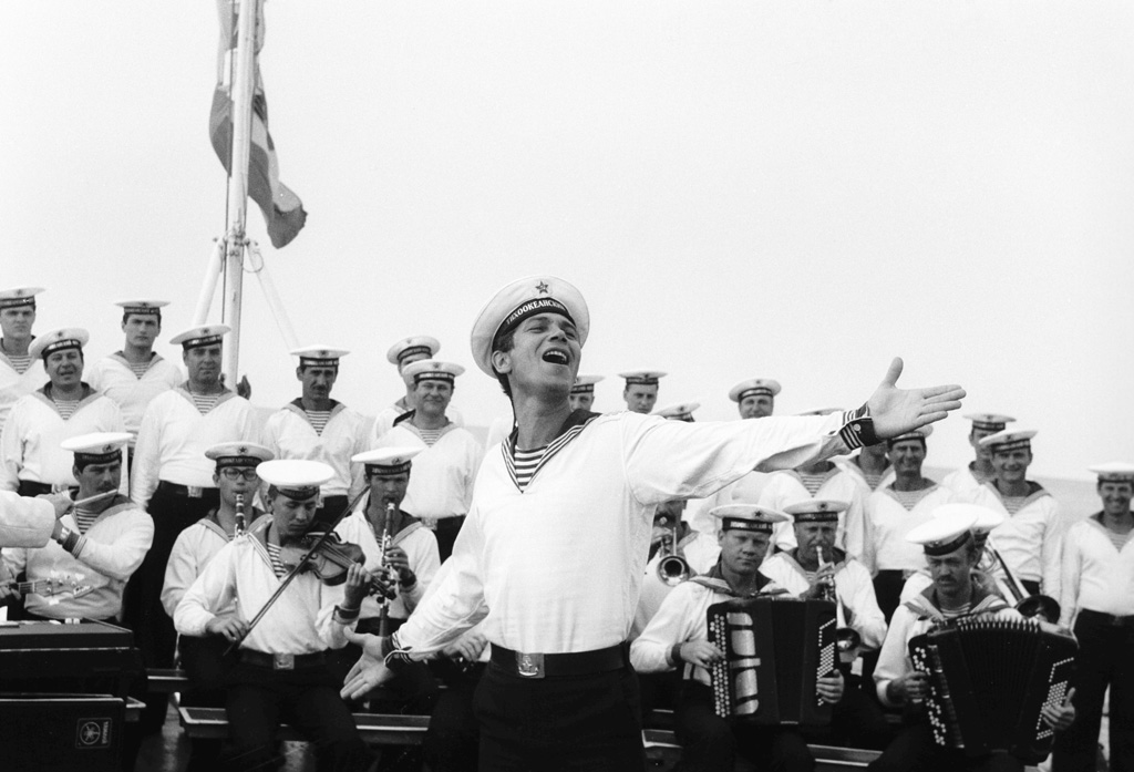 “Order of Red Banner Pacific Fleet Company performing”. Order of Red Banner Pacific Fleet Company performing on the ship deck.